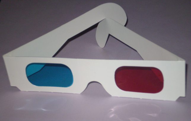 Paper glasses for viewing Anaglyphs.